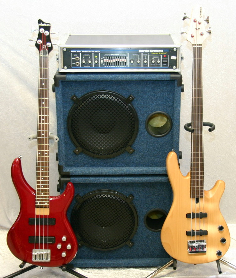 The red bass guitar to the left is a Jackson C4A, with 2 active humbucker pickups. The natural finish one to the right is a Yamaha BB404F Fretless with fret lines. The amplifier is a Hartke 5000, 2 * 250 Watt in 4 ohms.